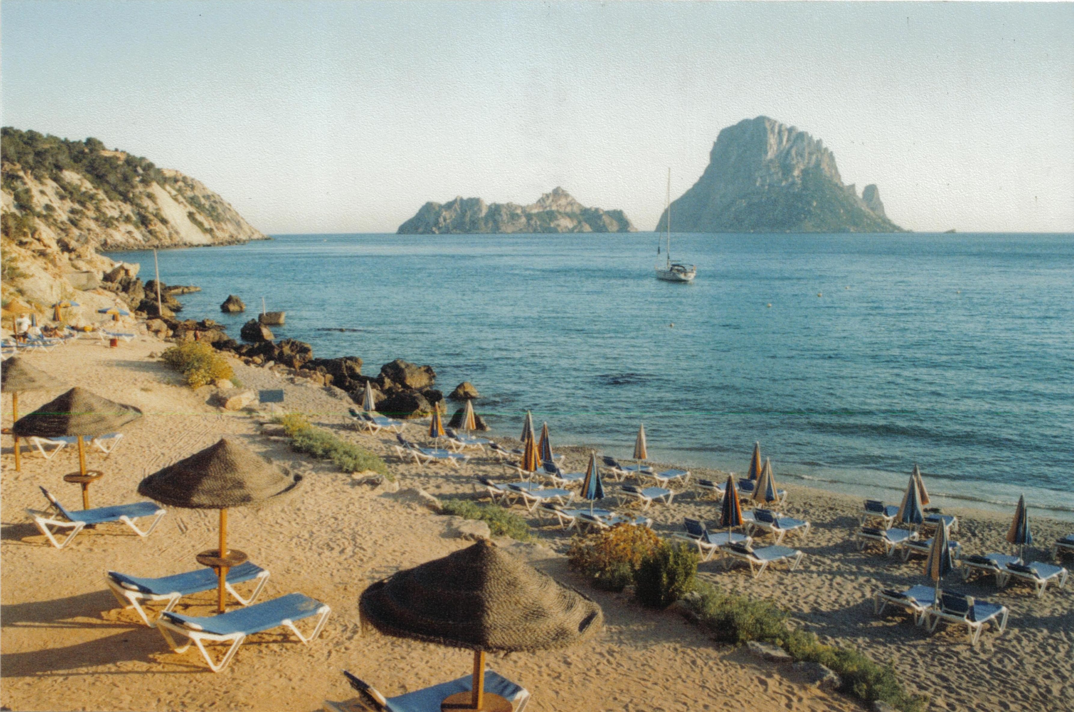 sea view, Ibiza Spain